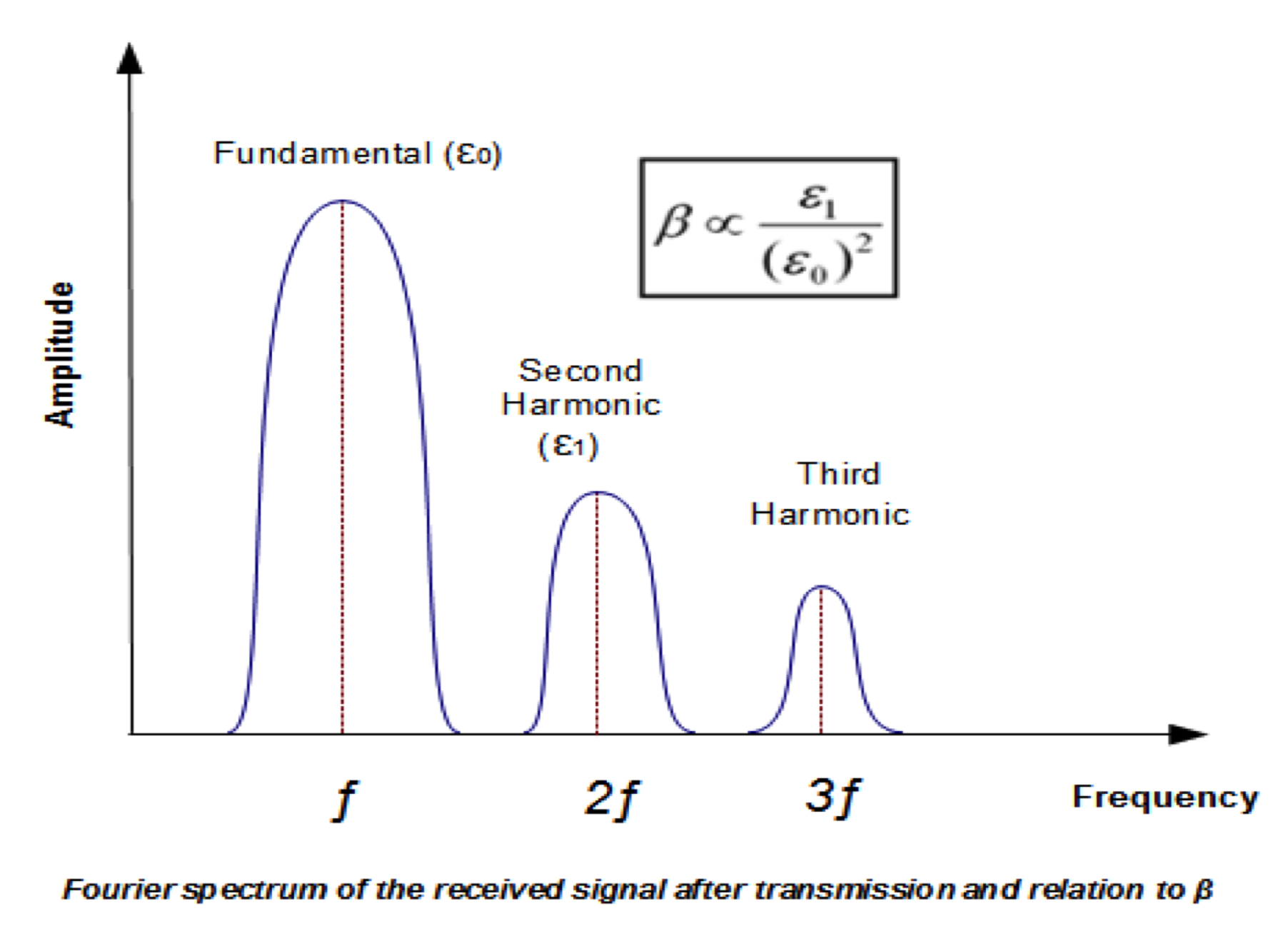 Figure 2:Fourier spectrum of the received signal ( The determination of the non linear parmeter )